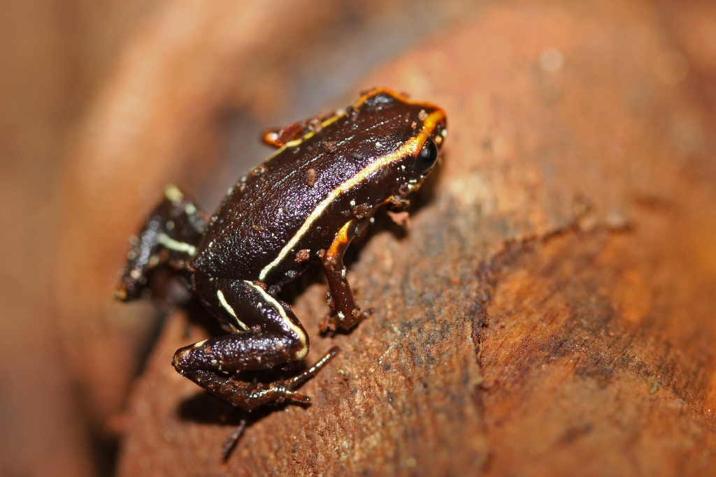 Heard calling and then found in the leaf litter, within Alejandro de Humboldt National Park.